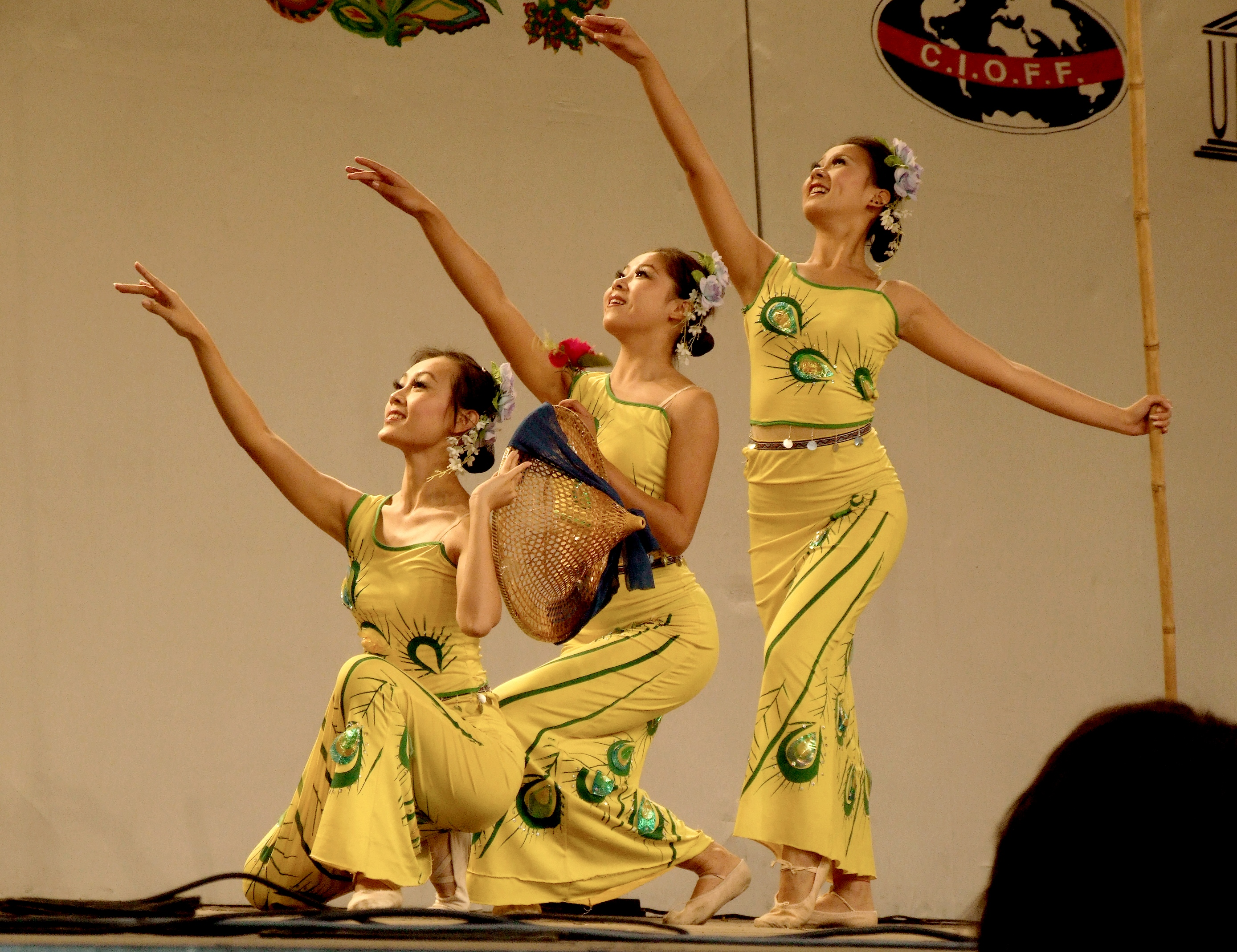 Traditional Chinese dancers at a folklore festival in Zielona Góra, Poland Author: Mohylek 13:17, 9 October 2006 (UTC)